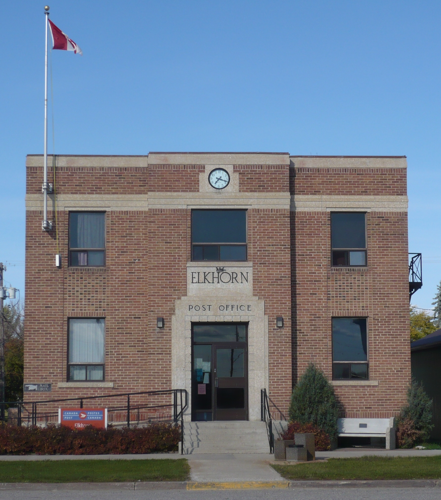 Elkhorn Post Office, Richhill Avenue, Elkhorn, Manitoba